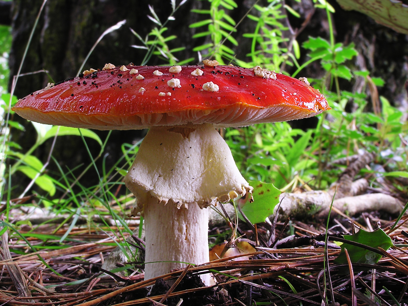 Fly Agaric mushroom growing under a stand of Pinus radiata trees, Wellington, New Zealand.